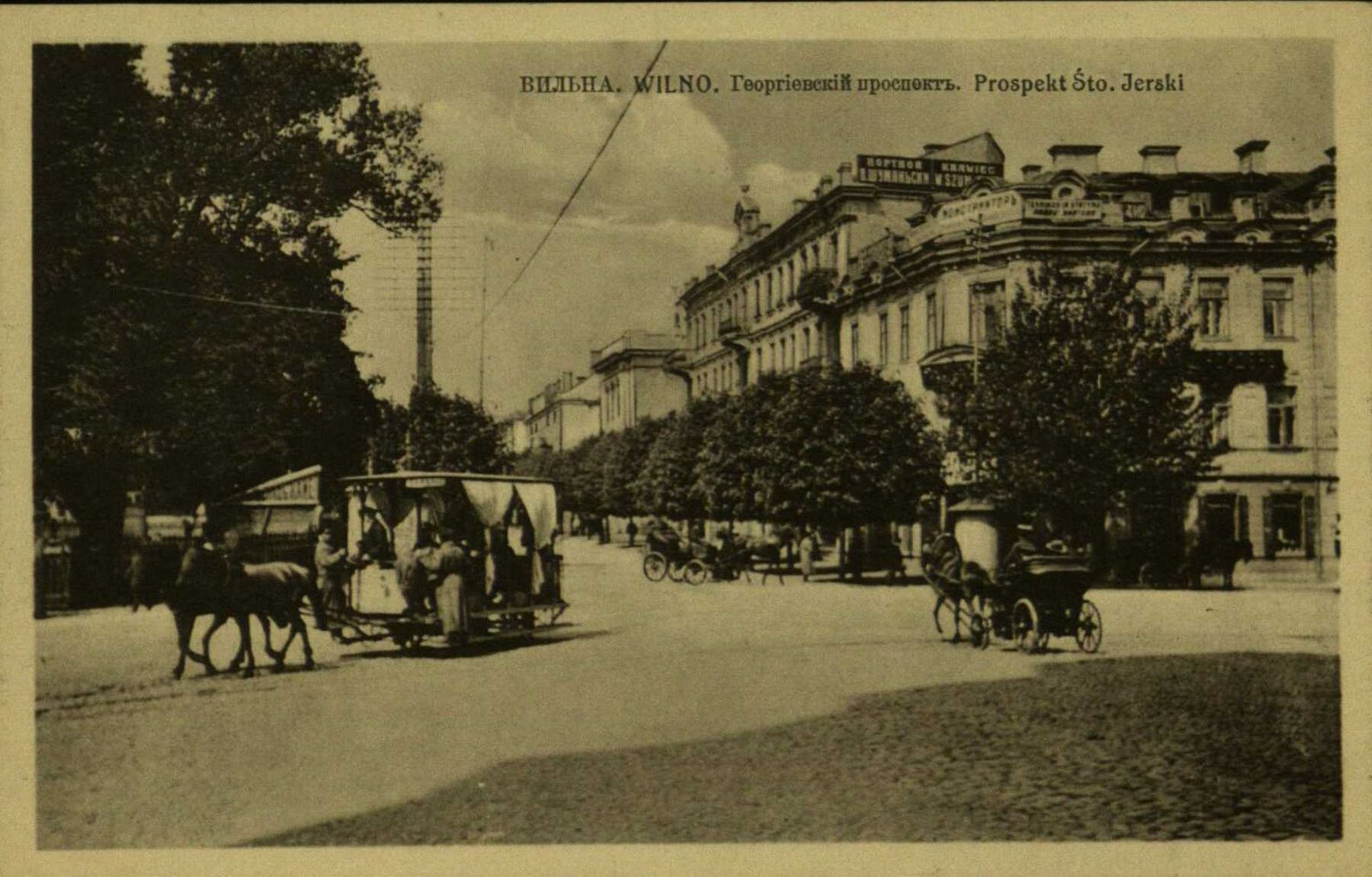 Horse tramway in Vilnius